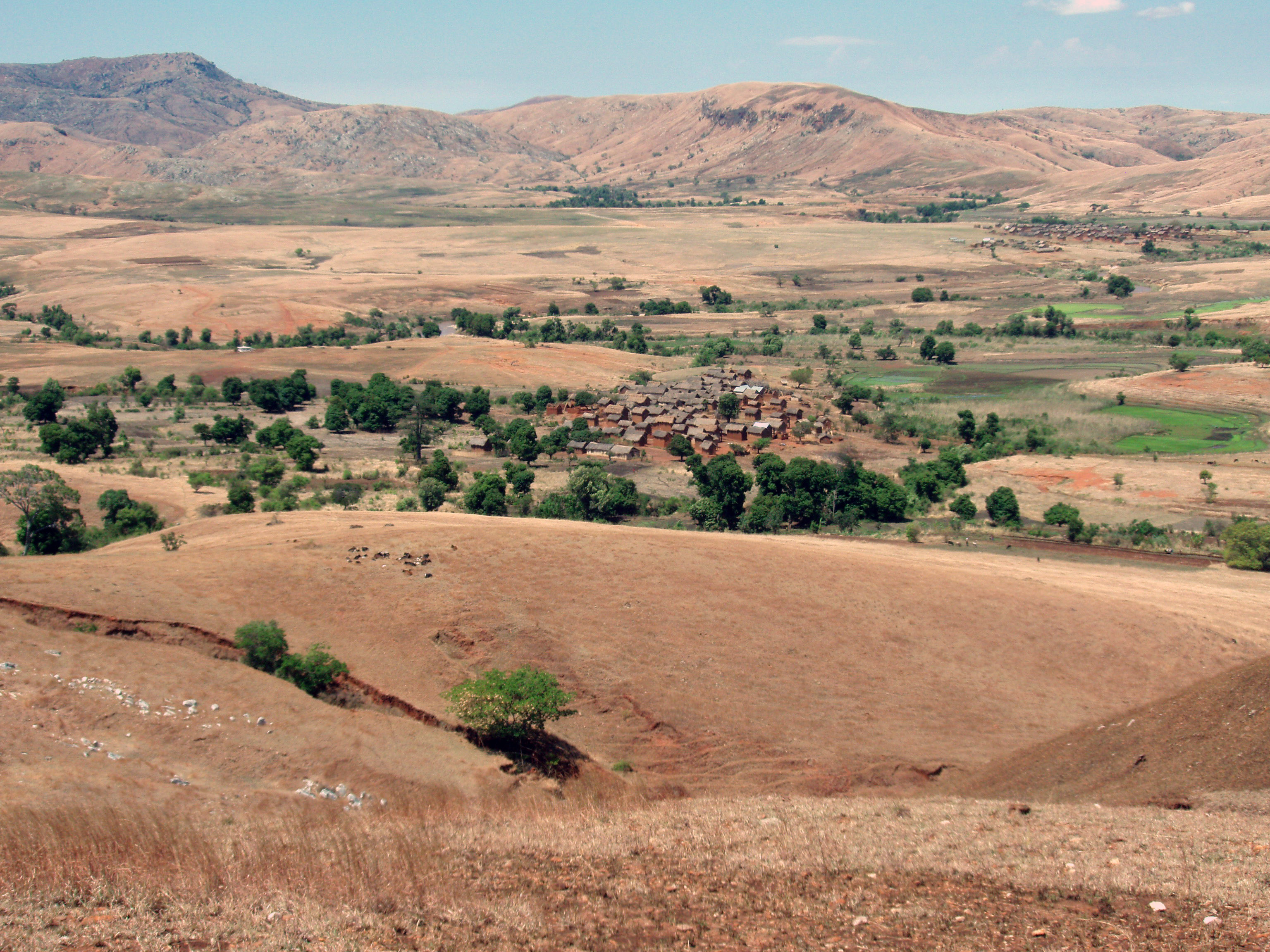 Anosivola seen from the ridge east of the village